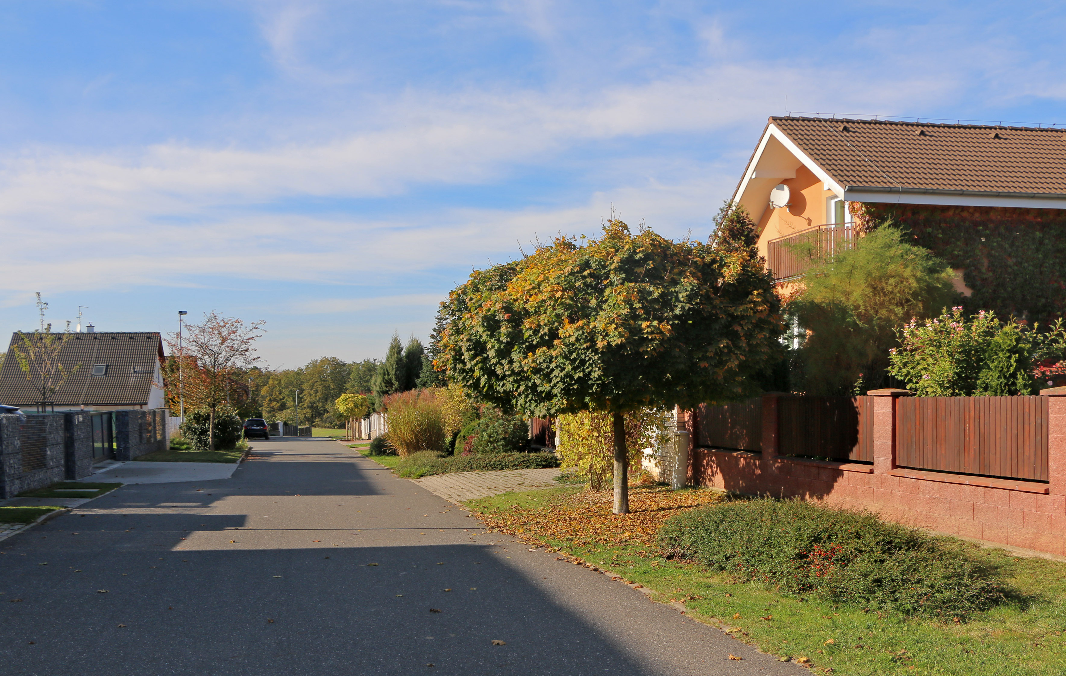 Mátová street, Prague.